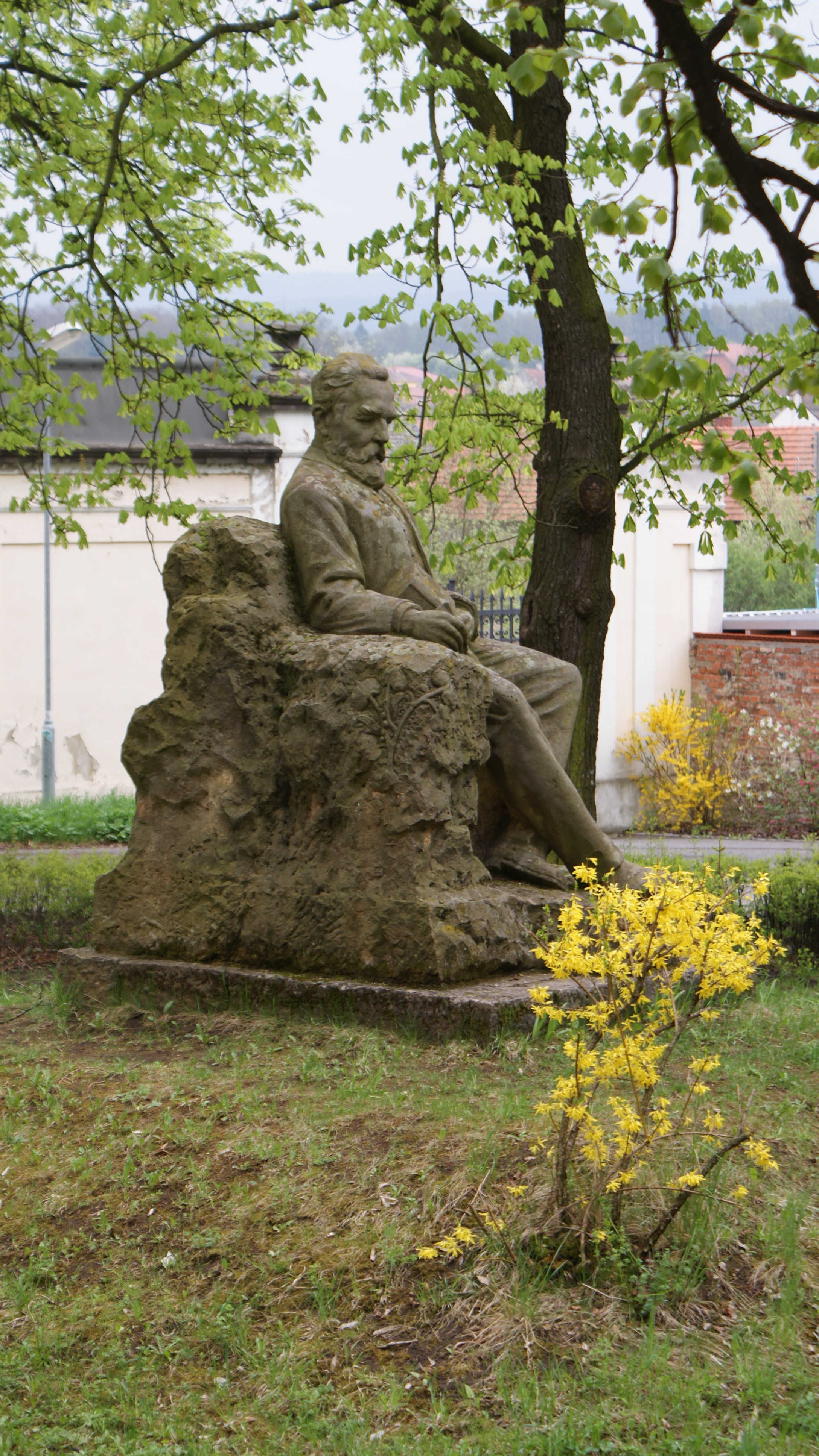 Svatopluk Čech Monument was built in 1938